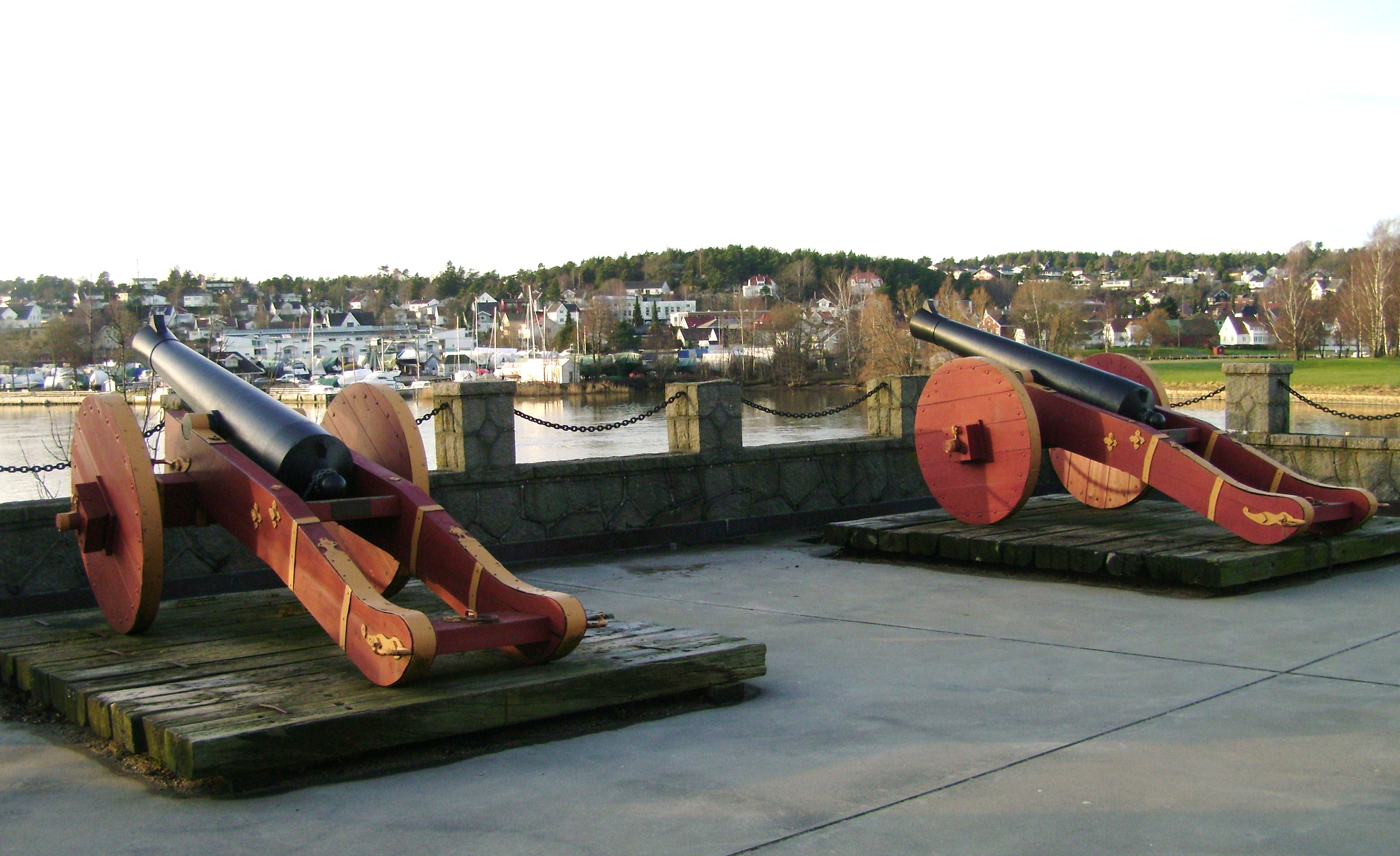 Fredrikstad, Fortress at he Princ Georg´s Bastion